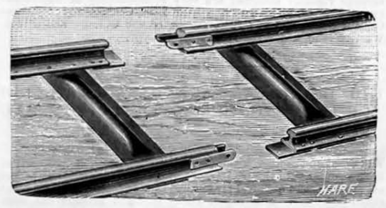 Decauville rail joint (The Engineer, 26 July 1889, p. 80-81)